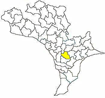 Mandal map of Krishna district showing Pamarru mandal (in yellow)